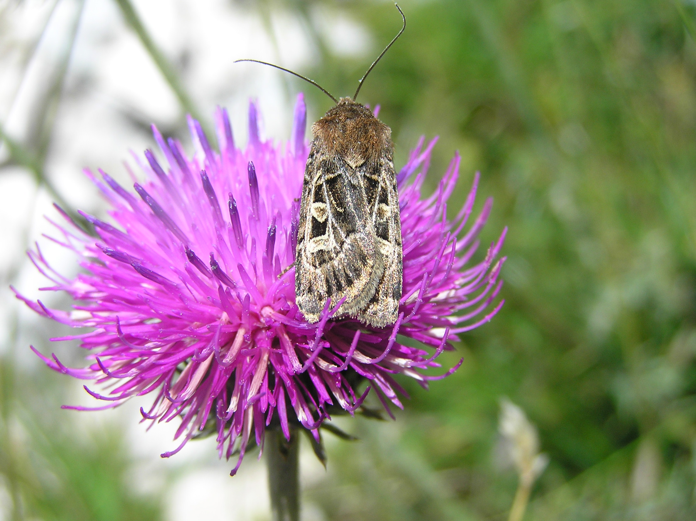 Euxoa tritici on the flanks of the Chamechaude (Isère, France)